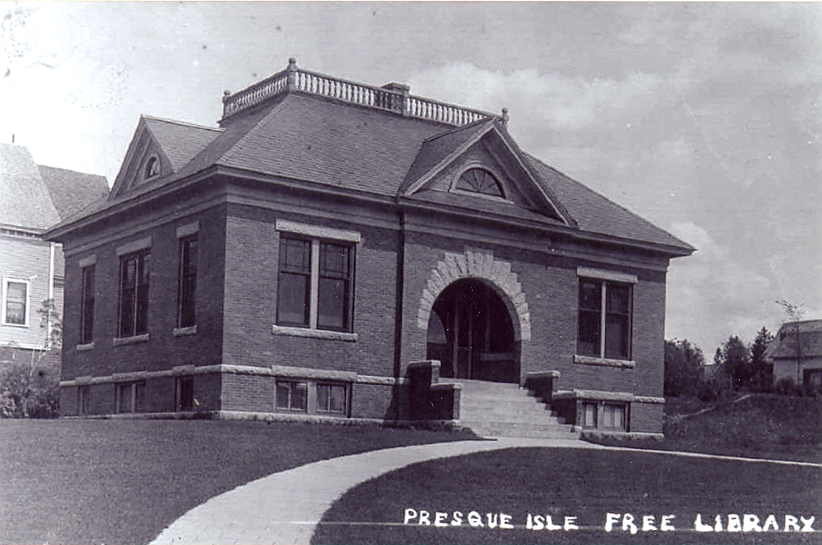 A picture of the Presque Isle Free Library in Presque Isle, Maine. Circa 1910.